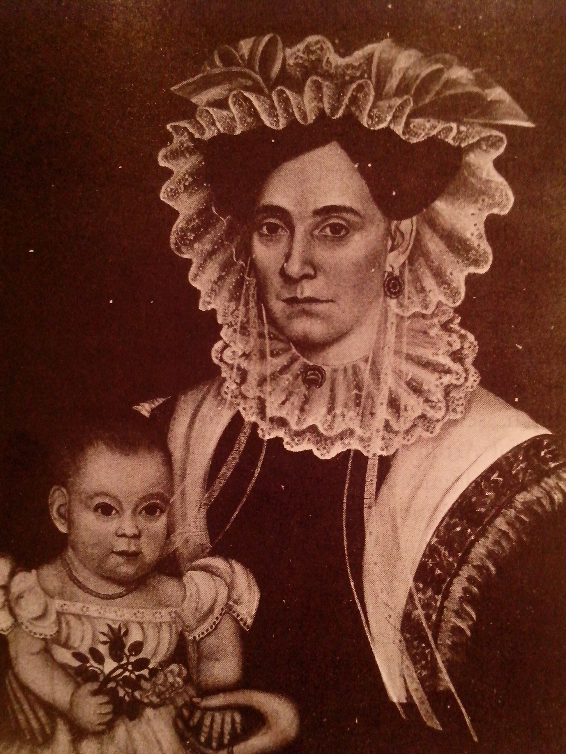 Aphia Salisbury Rich and Baby Edward, Painted 1833, Artist unknown